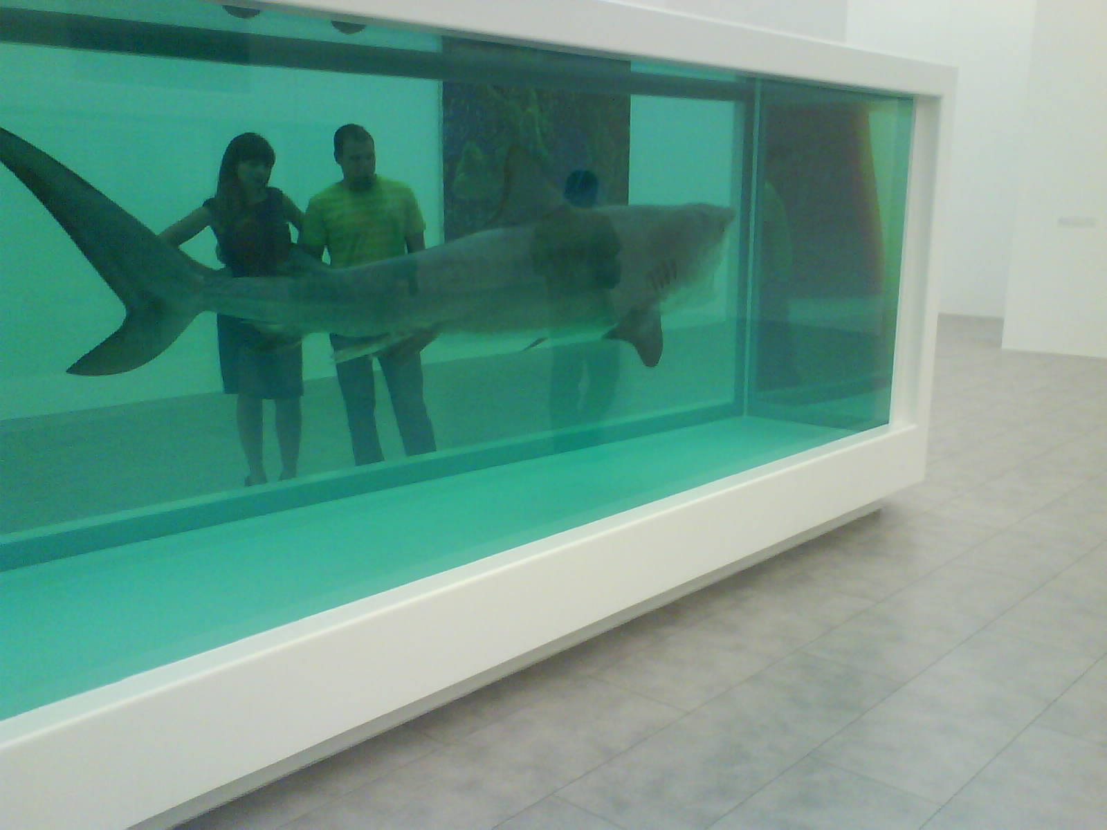 Damien Hirst, Death Denied, 2008, glass, steel, shark, acrylic and formadehyde solution, PinchukArtCentre, Kiev, Ukraine.